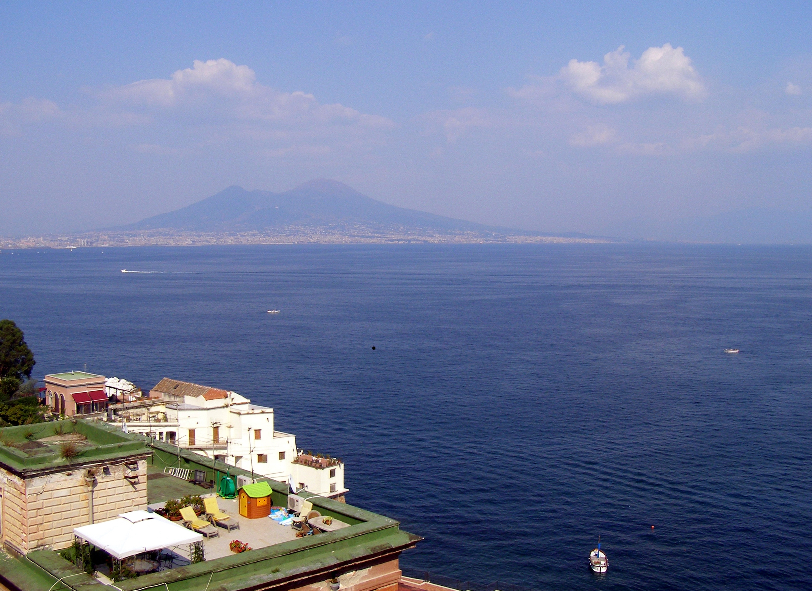 A photo that I took in Napoli during July 2006 of the Gulf Of Naples. It is part of my collection and would like to share it with every body. --mnb 01:04, 15 September 2007 (UTC)